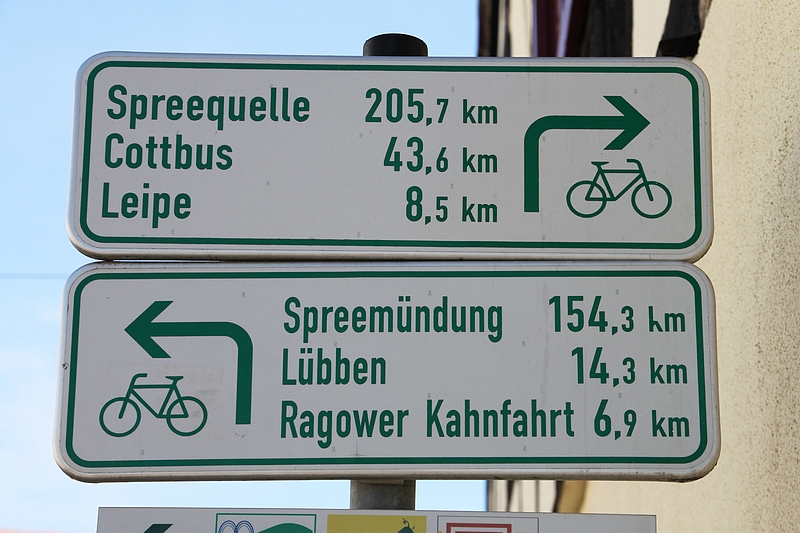 Lübbenau: road sign of the "Spree-bikeway".